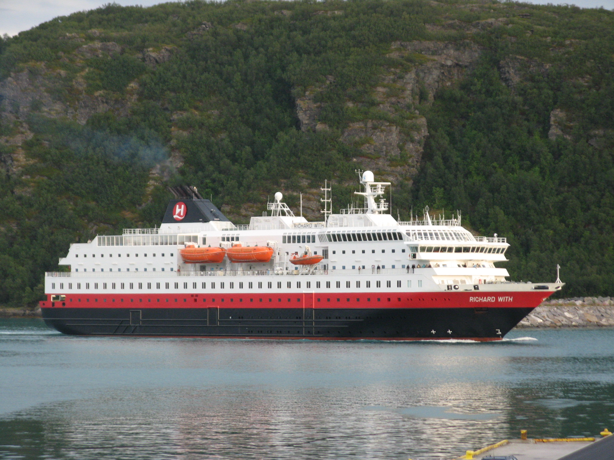 MS Richard With